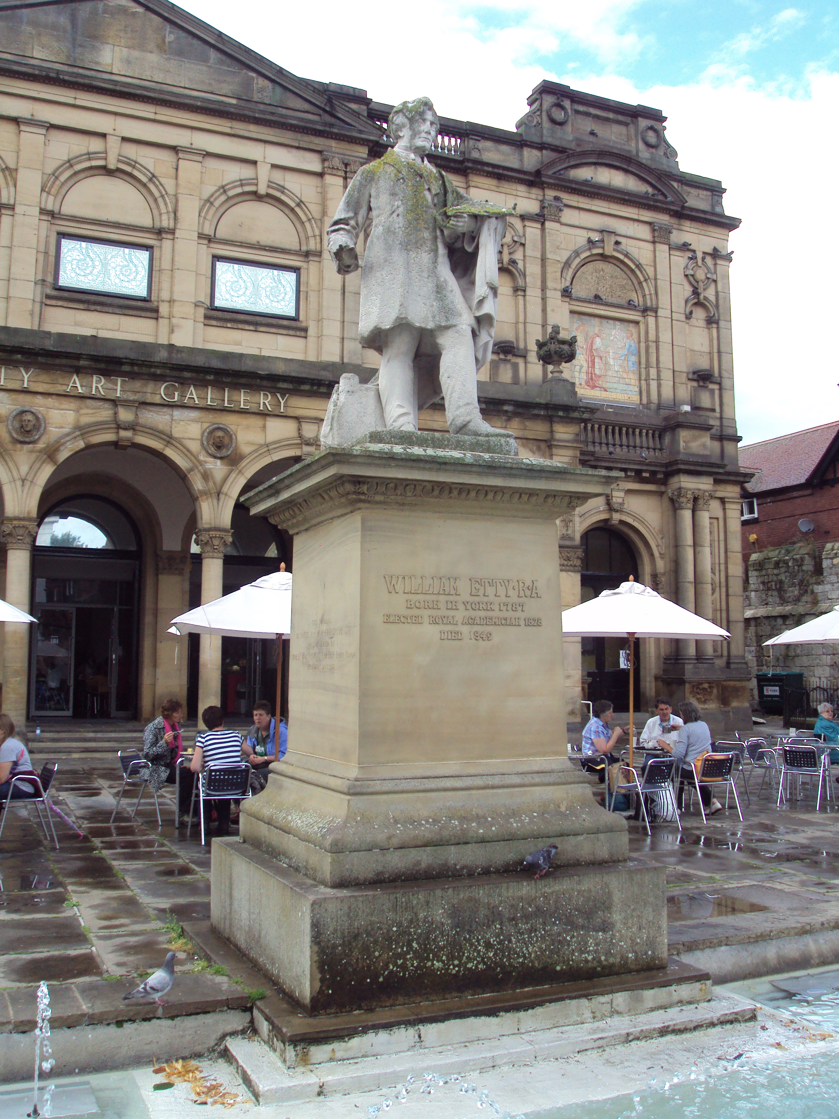 William Etty statue outside York Art Gallery, Exhibition Square, York.